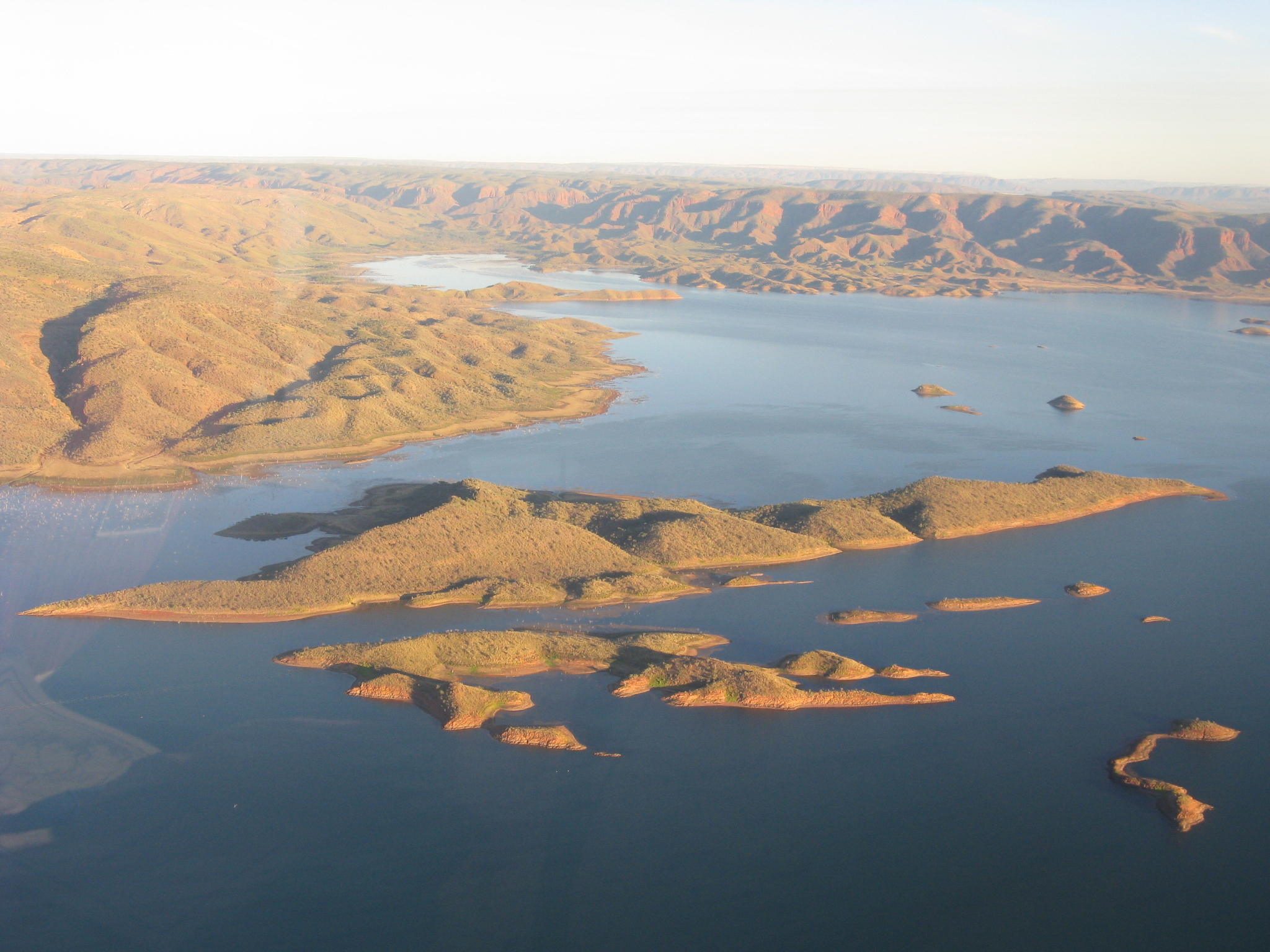 Lake Argyle, Kimberley/Australia, seen from the air